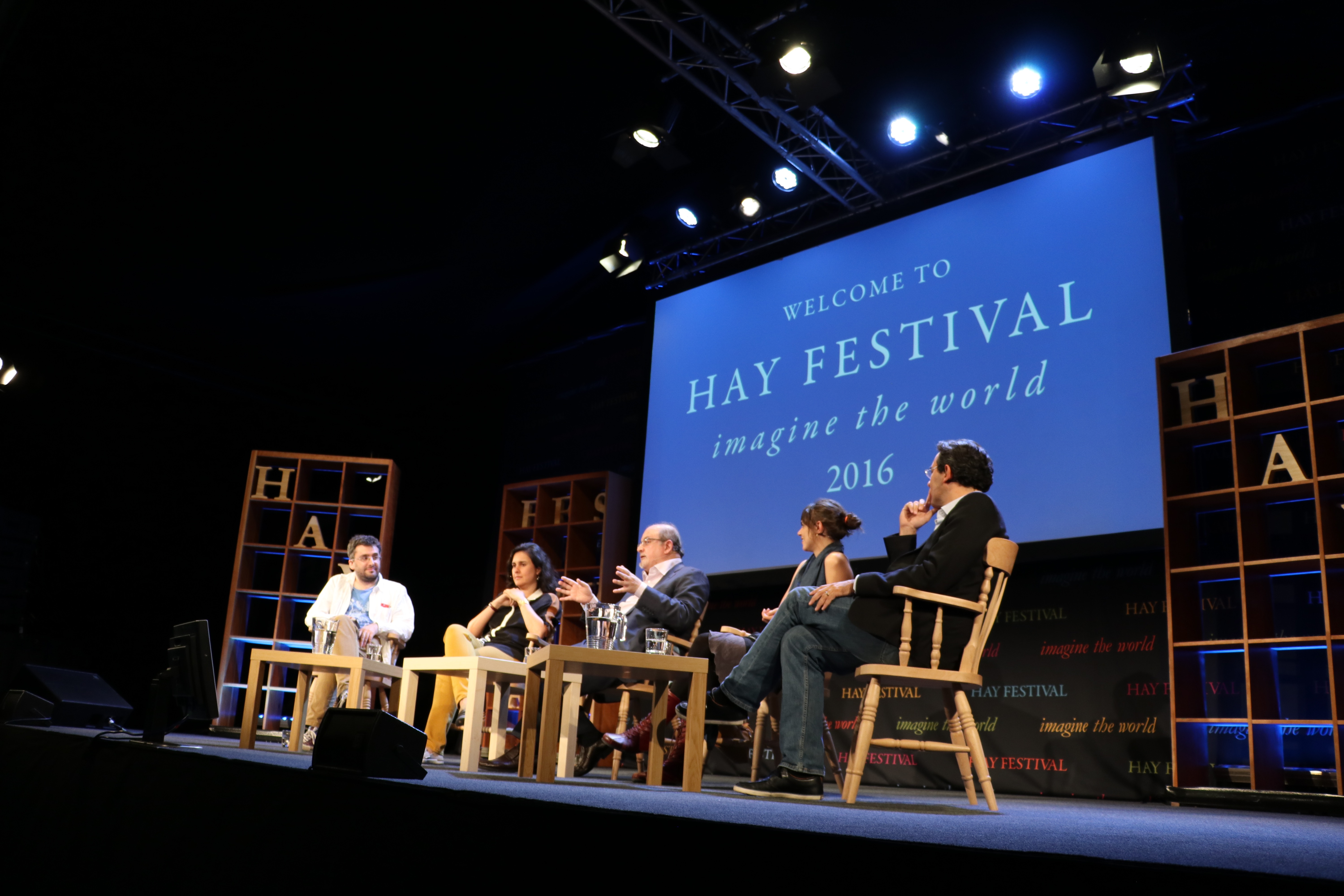 Hay Festival 2016 - Salman Rushdie